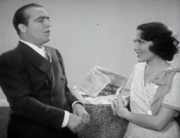 Screenshot the 1932 film Manhattan Tower